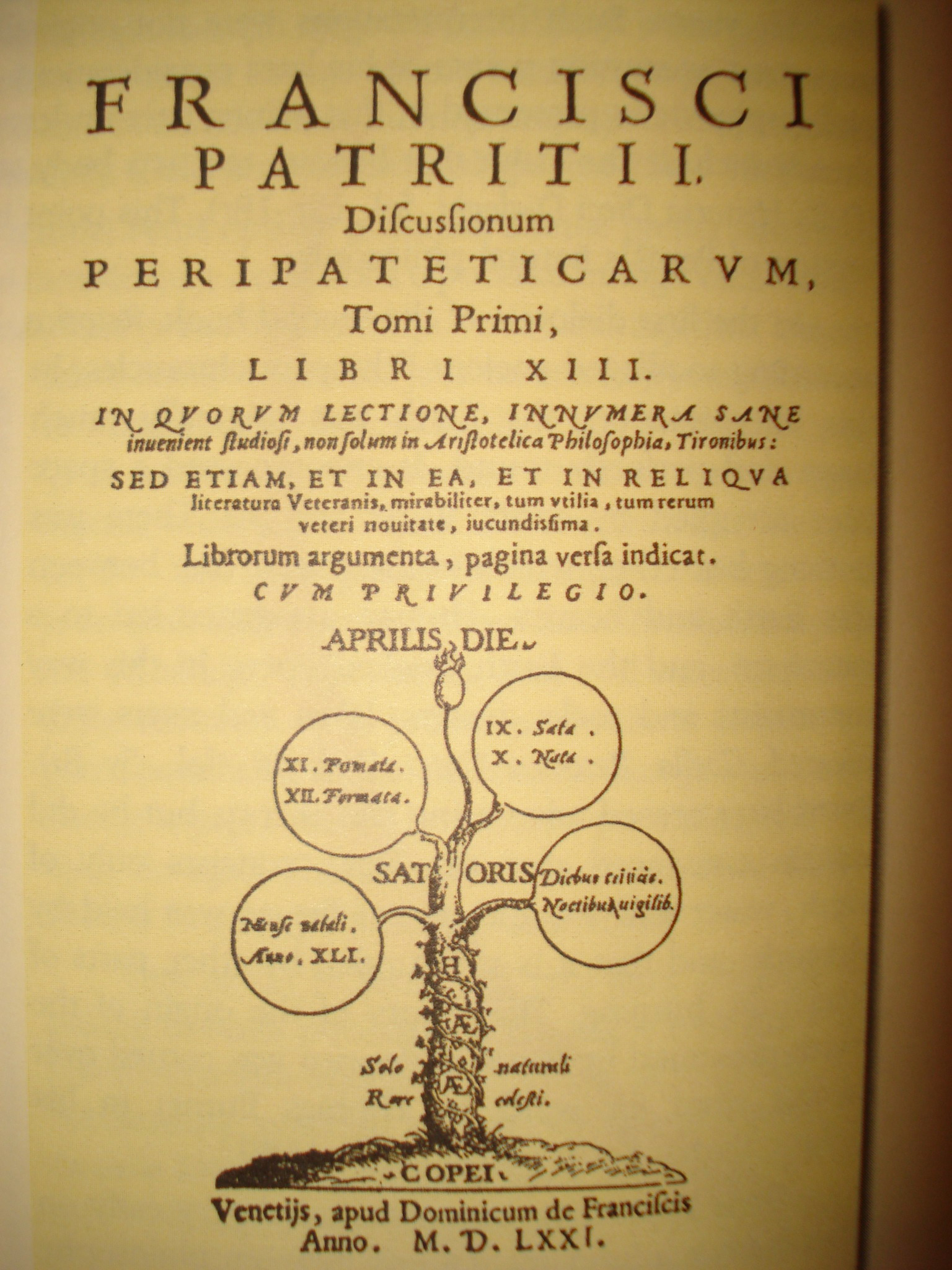 Franjo Petriš (Latin: Franciscus Patricius), Croatian philosopher: "Peripatetical discussion" (Latin: "Discussionum peripateticarum"), first volume - title page; published in Venice in 1571.